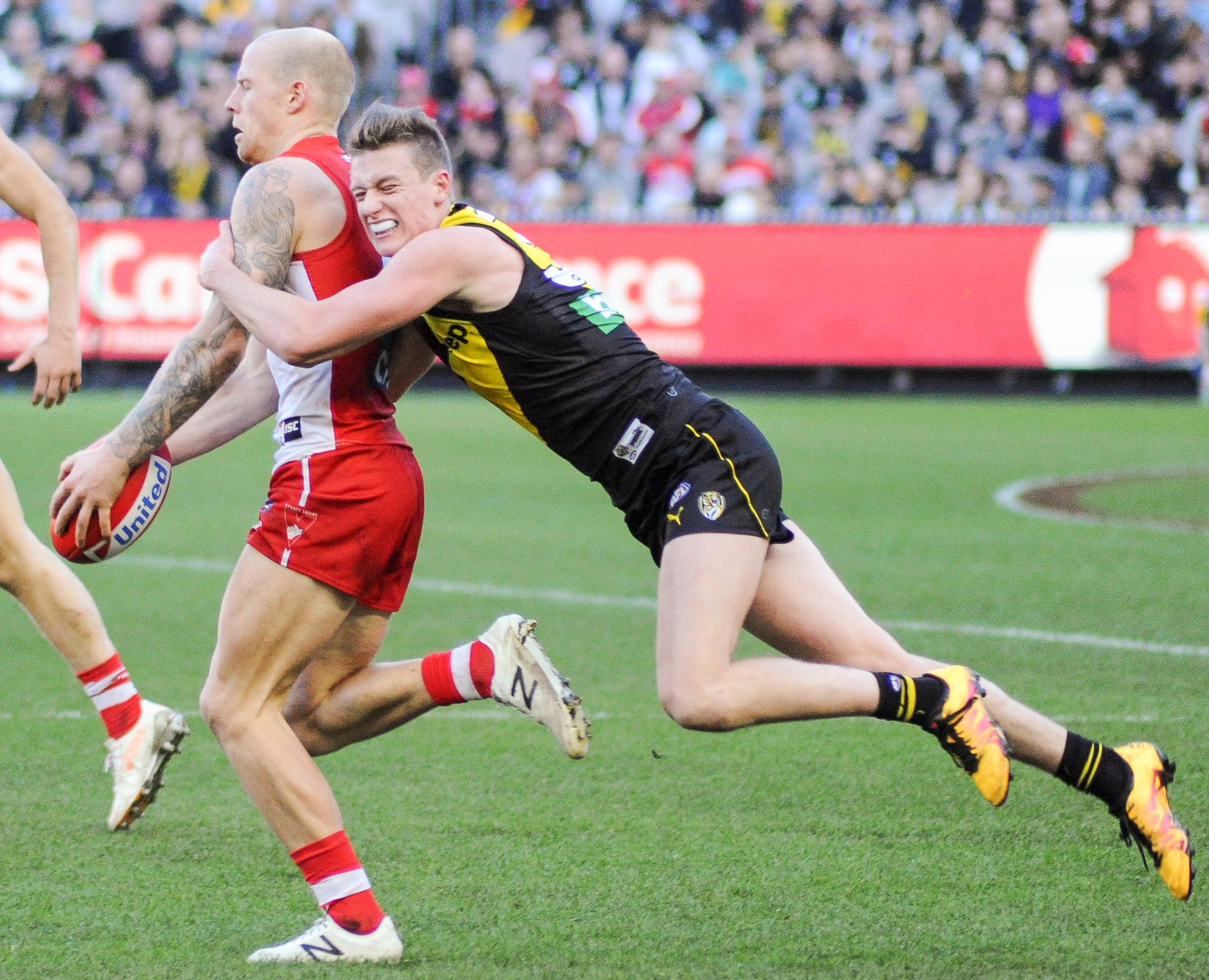 Connor Menadue chase down tackle on Zak Jones during the AFL round thirteen match between Richmond and Sydney on 17 June 2017 at the Melbourne Cricket Ground in Melbourne, Victoria.